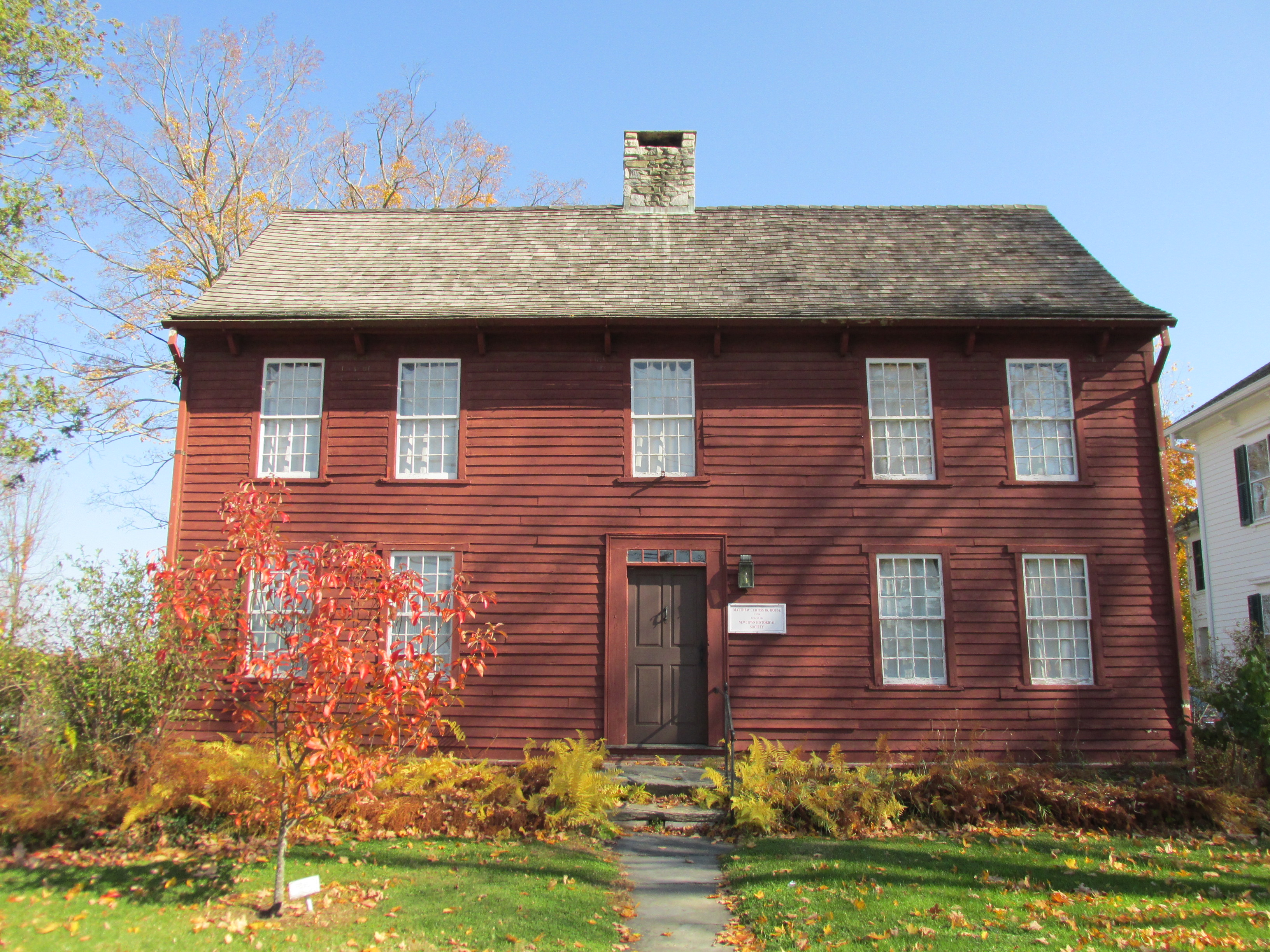 Matthew Curtiss Jr House, Newtown Connecticut - 2013